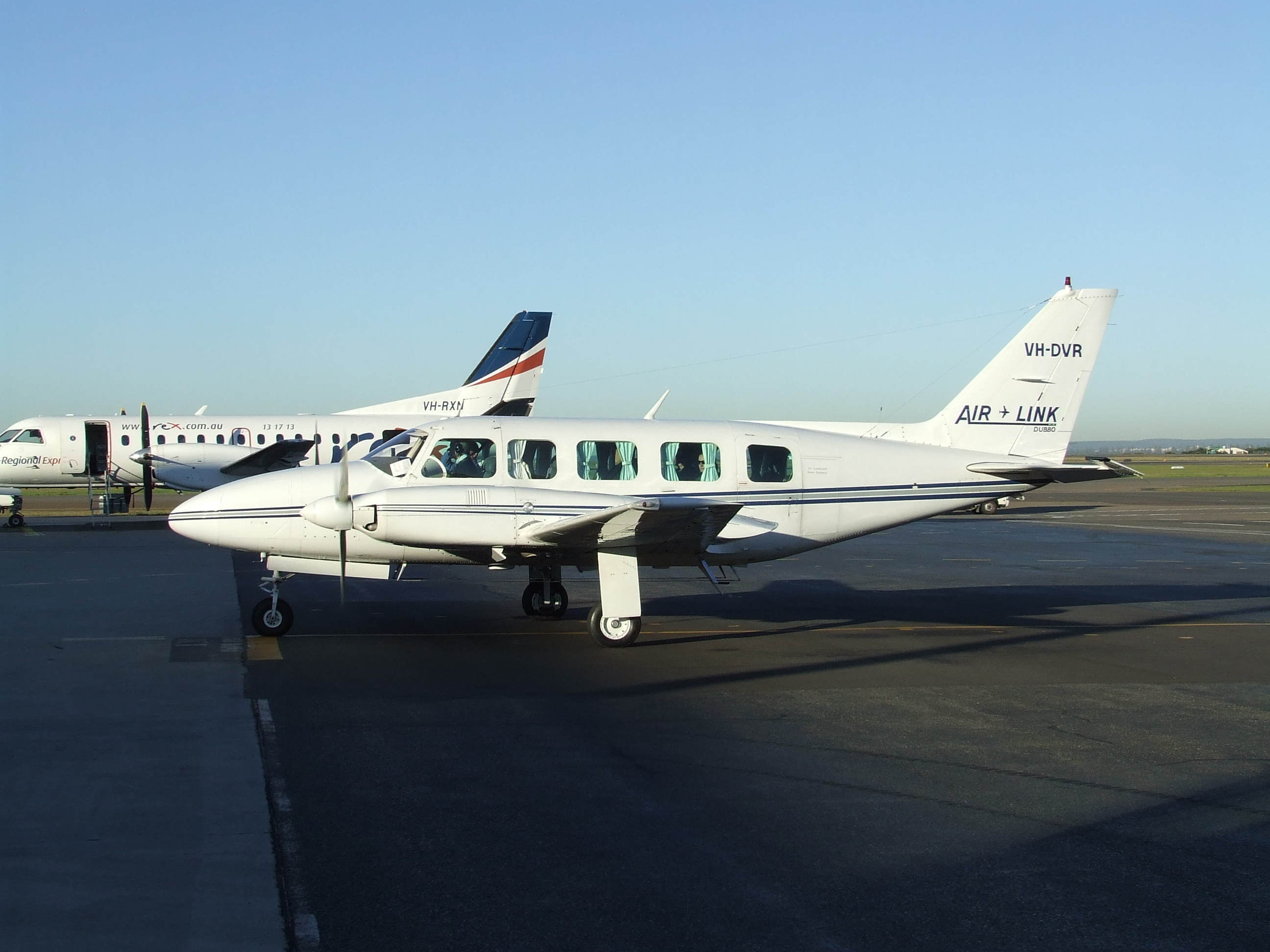 An Air Link Piper Chieftain at Sydney's Kingsford Smith International Airport prepares to depart to Mudgee. The PA31 series of aircraft has long been used to operate services to smaller communities. Digital photo of PA31-350 VH-DVR taken at Sydney